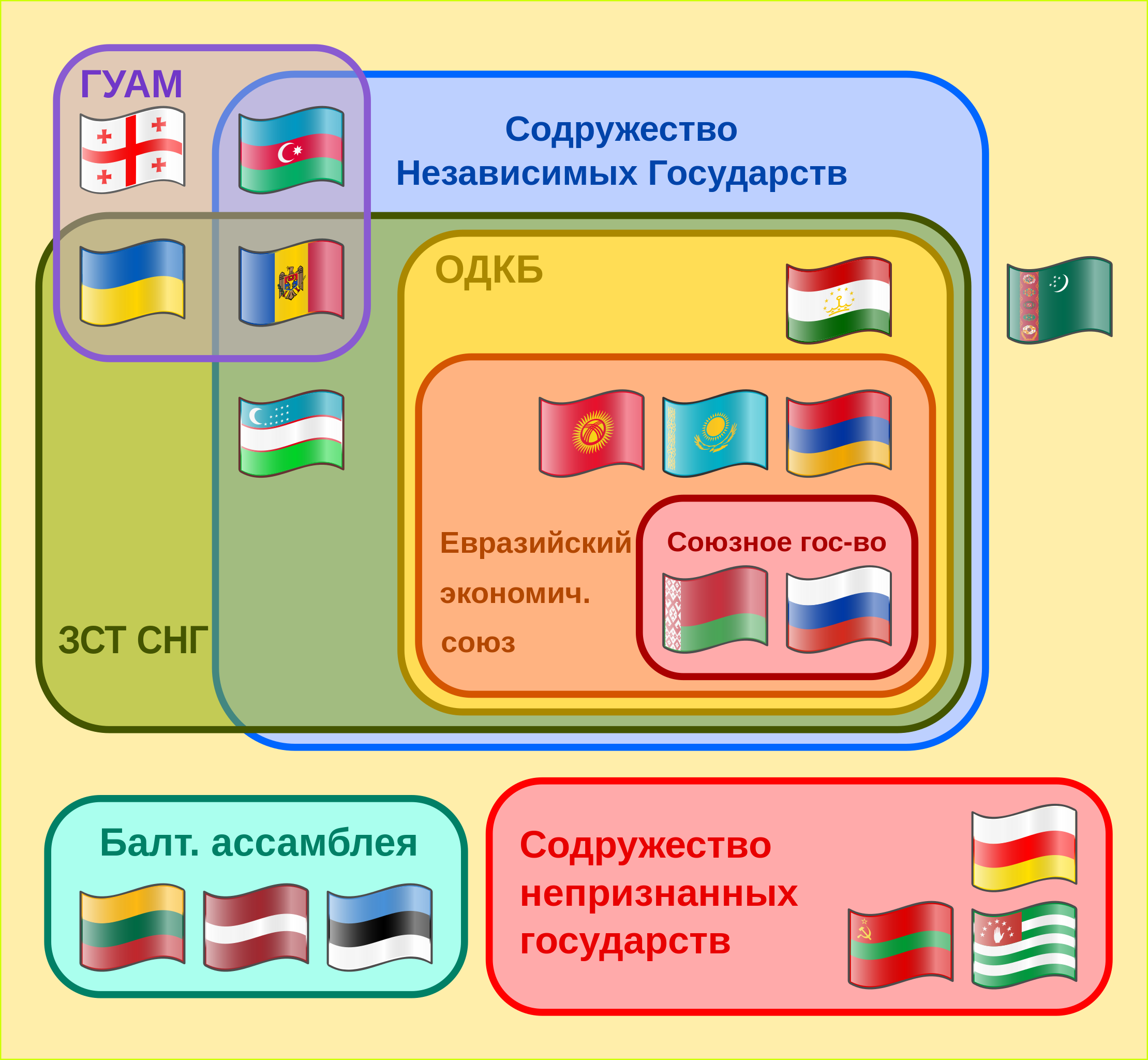 Supranational PostSoviet Bodies